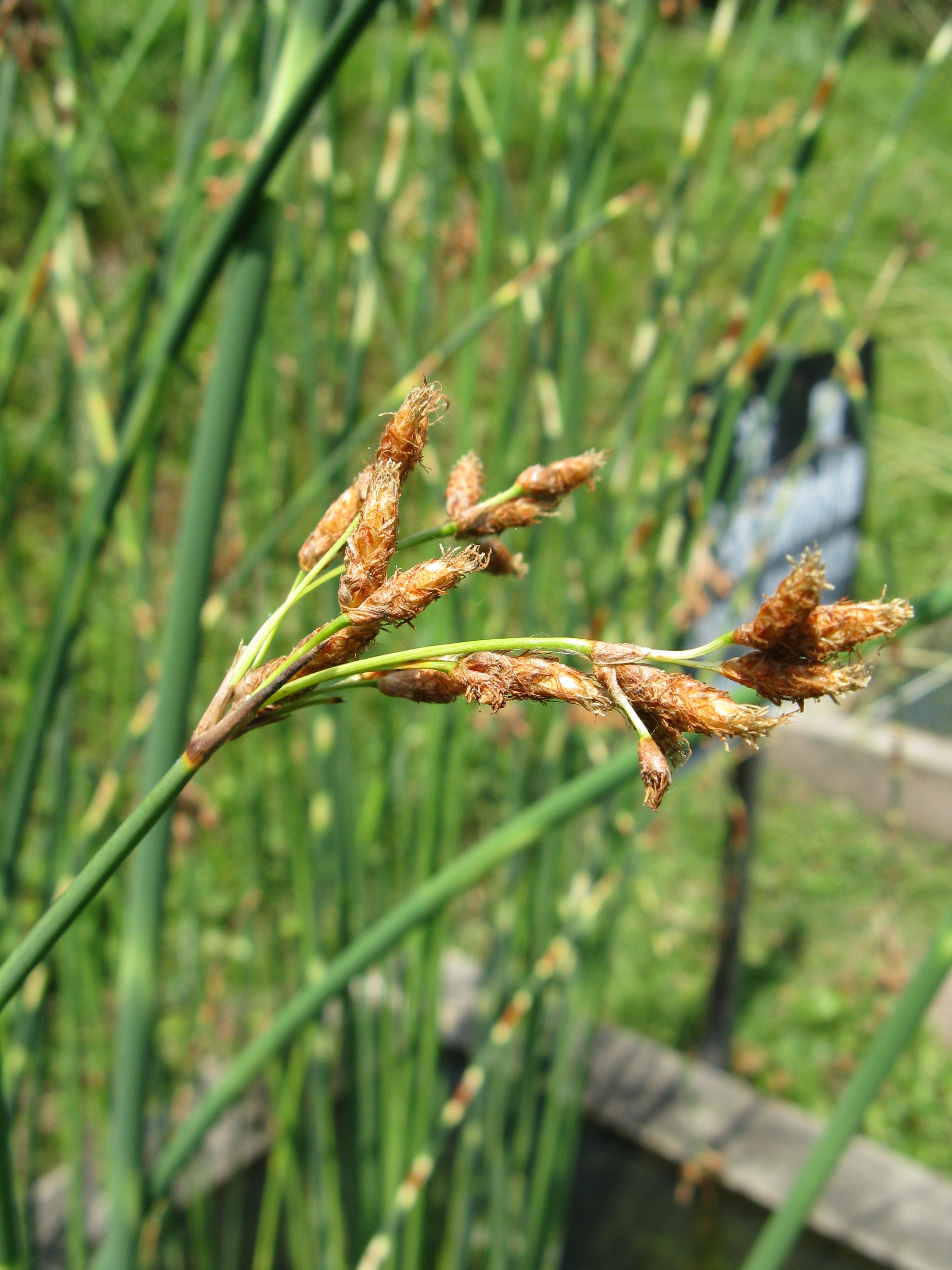 Scientific name Scirpus tabernaemontani f. zebrinus